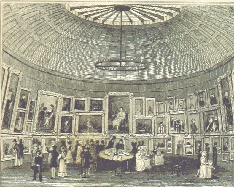 Birmingham Society of Artists, interior. Image extracted from page 231 of An Historical and Descriptive Sketch of Birmingham, with some account of its environs, and forty-four views of the principal public buildings, etc.', by George Yates FRCS. Original held and digitised by the British Library. Copied from Flickr. Note: The colours, contrast and appearance of these illustrations are unlikely to be true to life. They are derived from scanned images that have been enhanced for machine interpretation and have been altered from their originals.